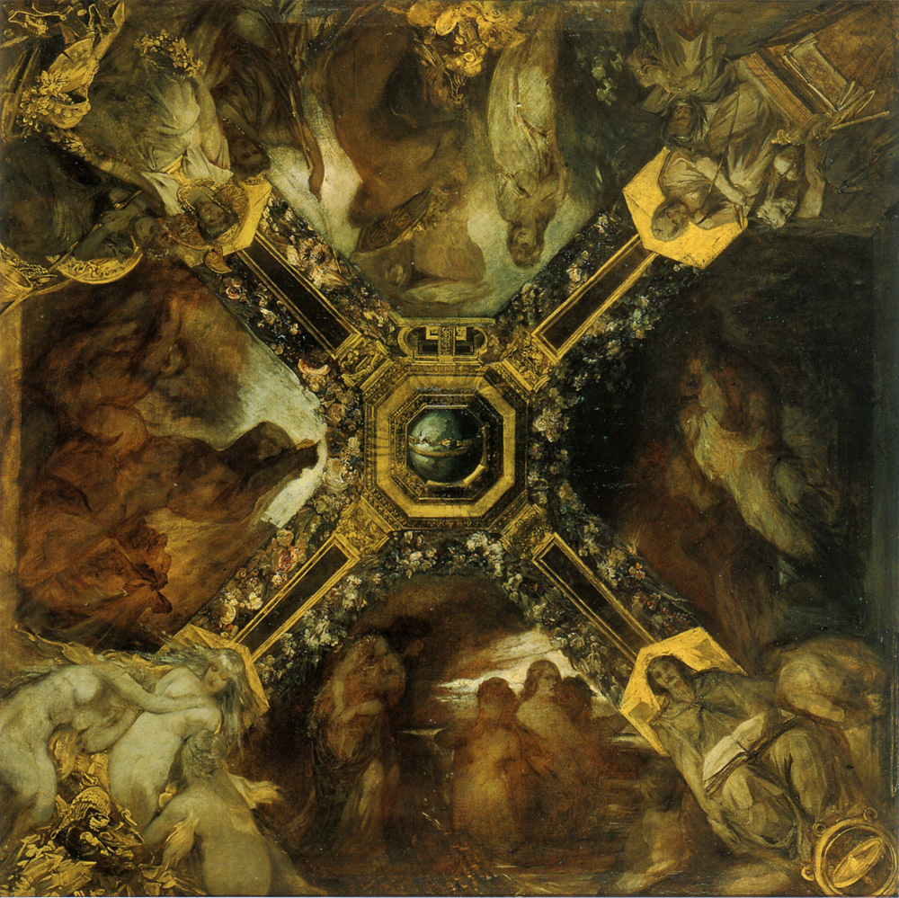 Hans Makart was a 19th century Austrian academic history painter, designer, and decorator